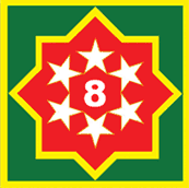 Logo of 8th Infantry Division